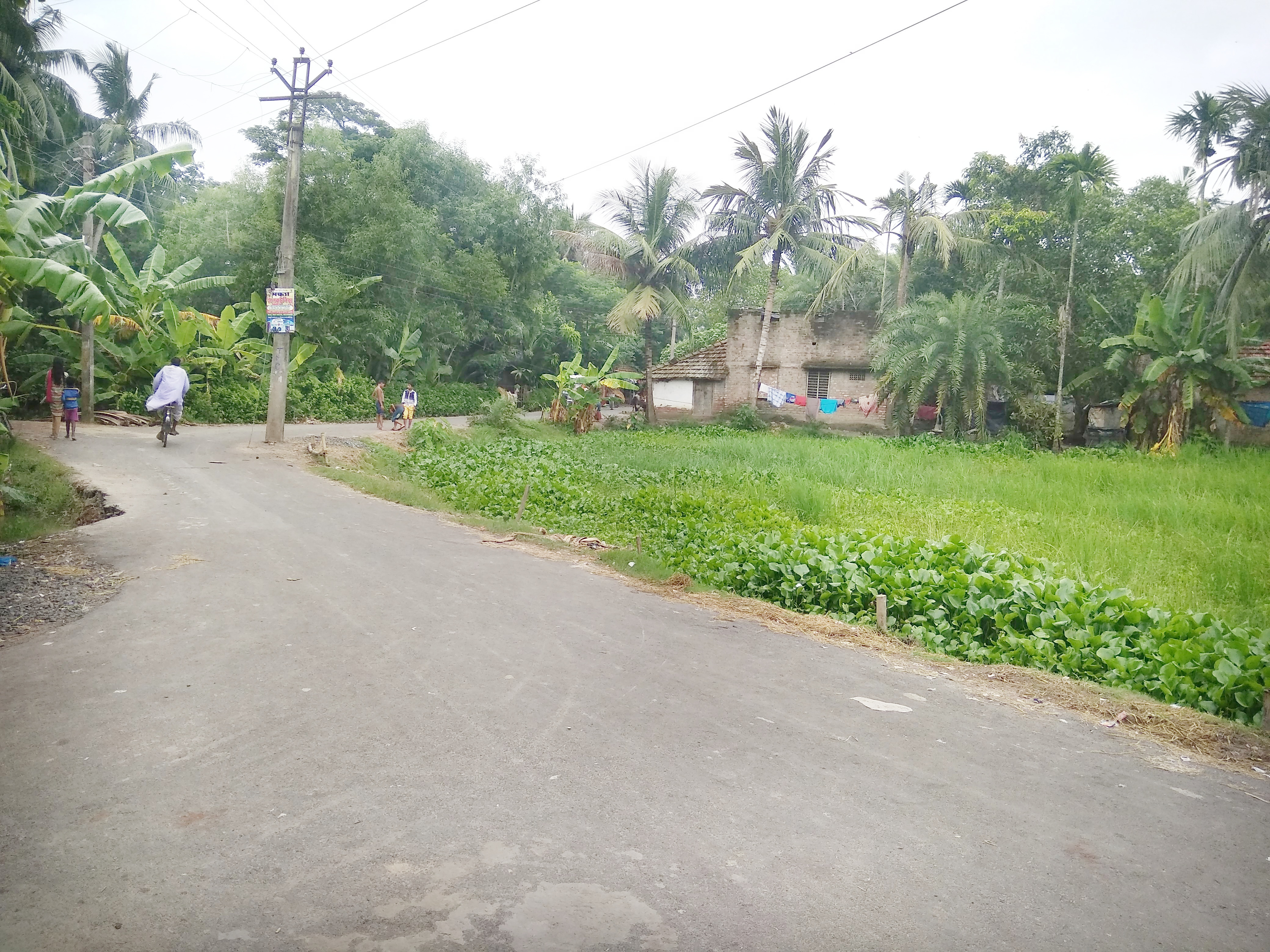 A Picture of Nandigram's Village